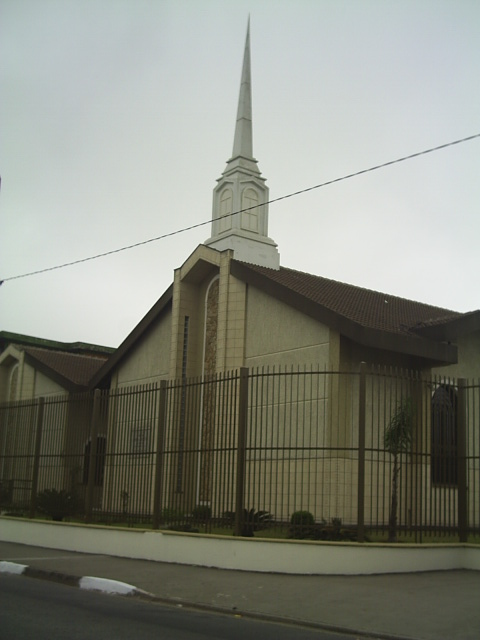 Churche of district of Sapopemba, in São Paulo City.